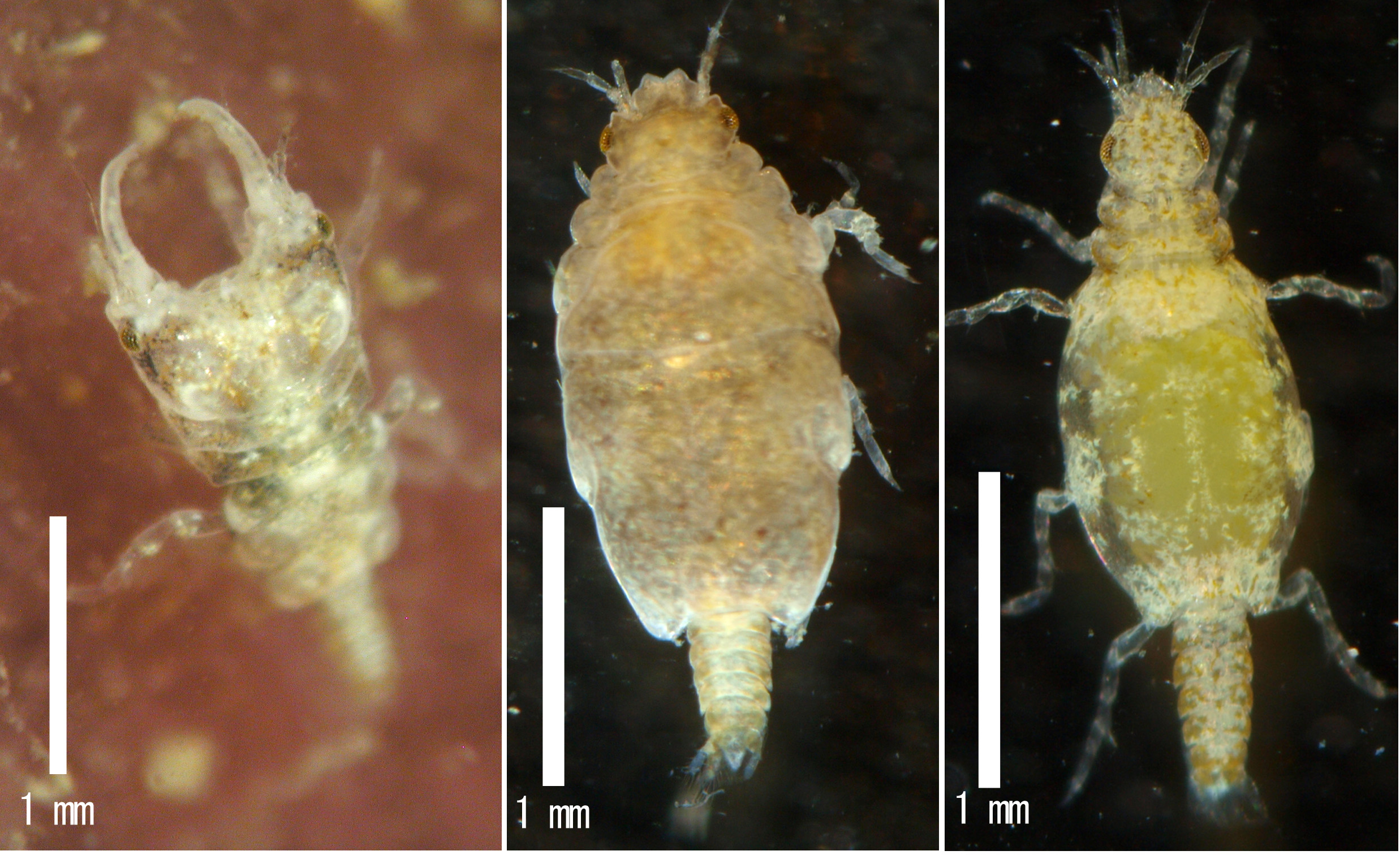 Gnathiid isopod crustaceans. Left; male adult, middle; female adult, right; praniza larva